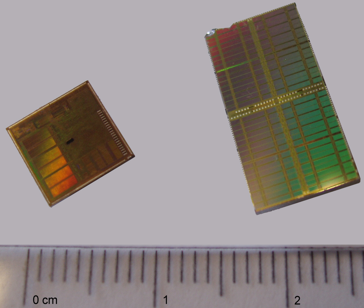 2 Computerchips (Dies), links Microchip dsPIC30F6014, rechts 4 MBit DRAM